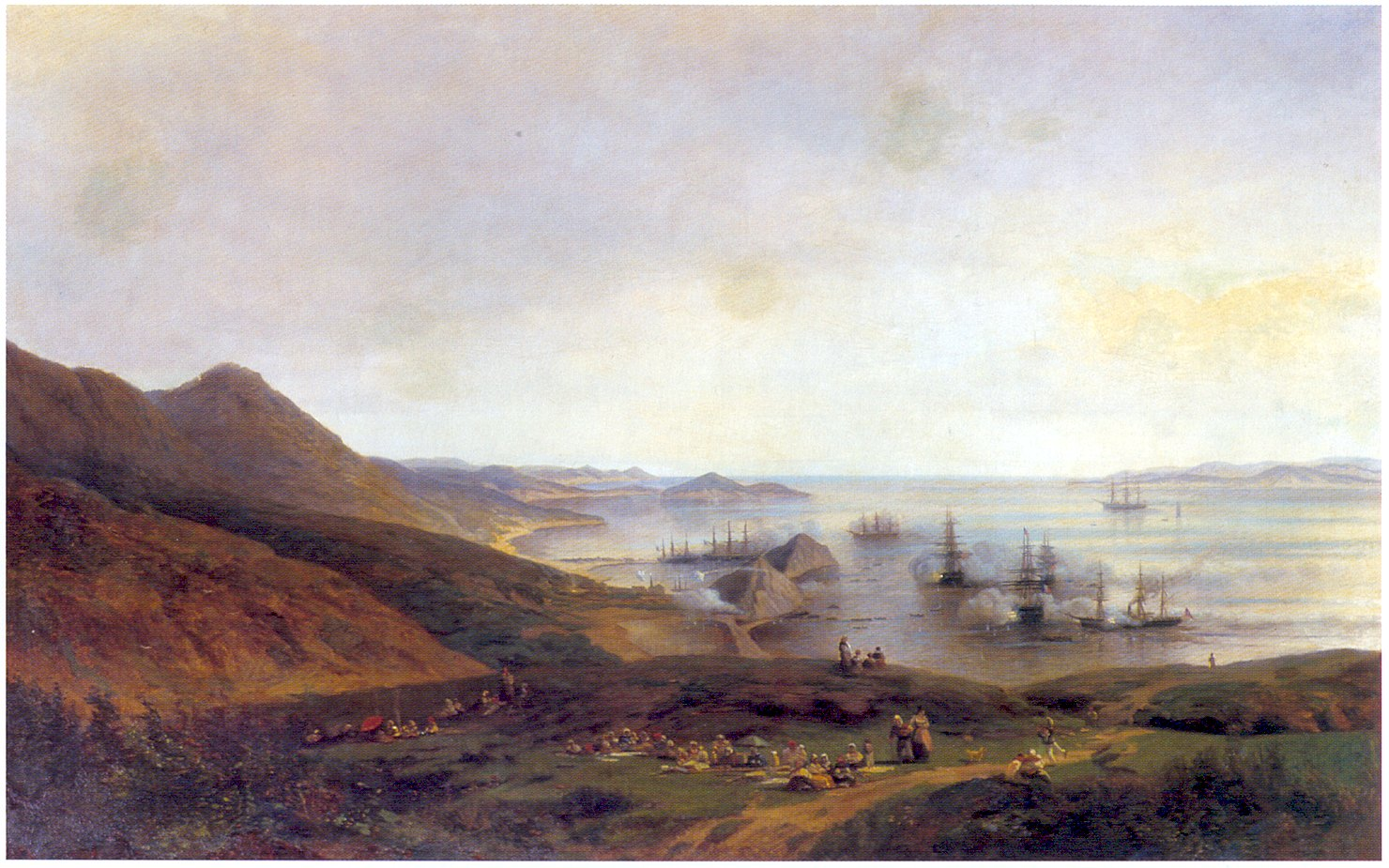 Attack of the Russian port of Petropavlovsk by a French and British fleet in September 1854 during the Crimean war